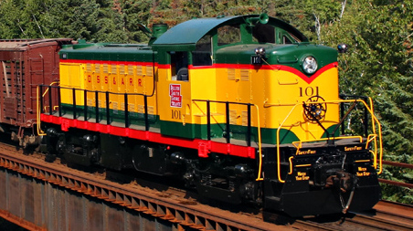 Duluth, South Shore & Atlantic 101, a 1945 Alco product, led one of two photo charters for Lake Superior Railroad Museum's annual railfan weekend. The other photo train had GN SD45 400 and looked equally as sharp. Despite a gloomy forecast, we had mostly sunny skies all day. Thanks to Steve Glischinski and the gang at LSRM for putting together a great show!